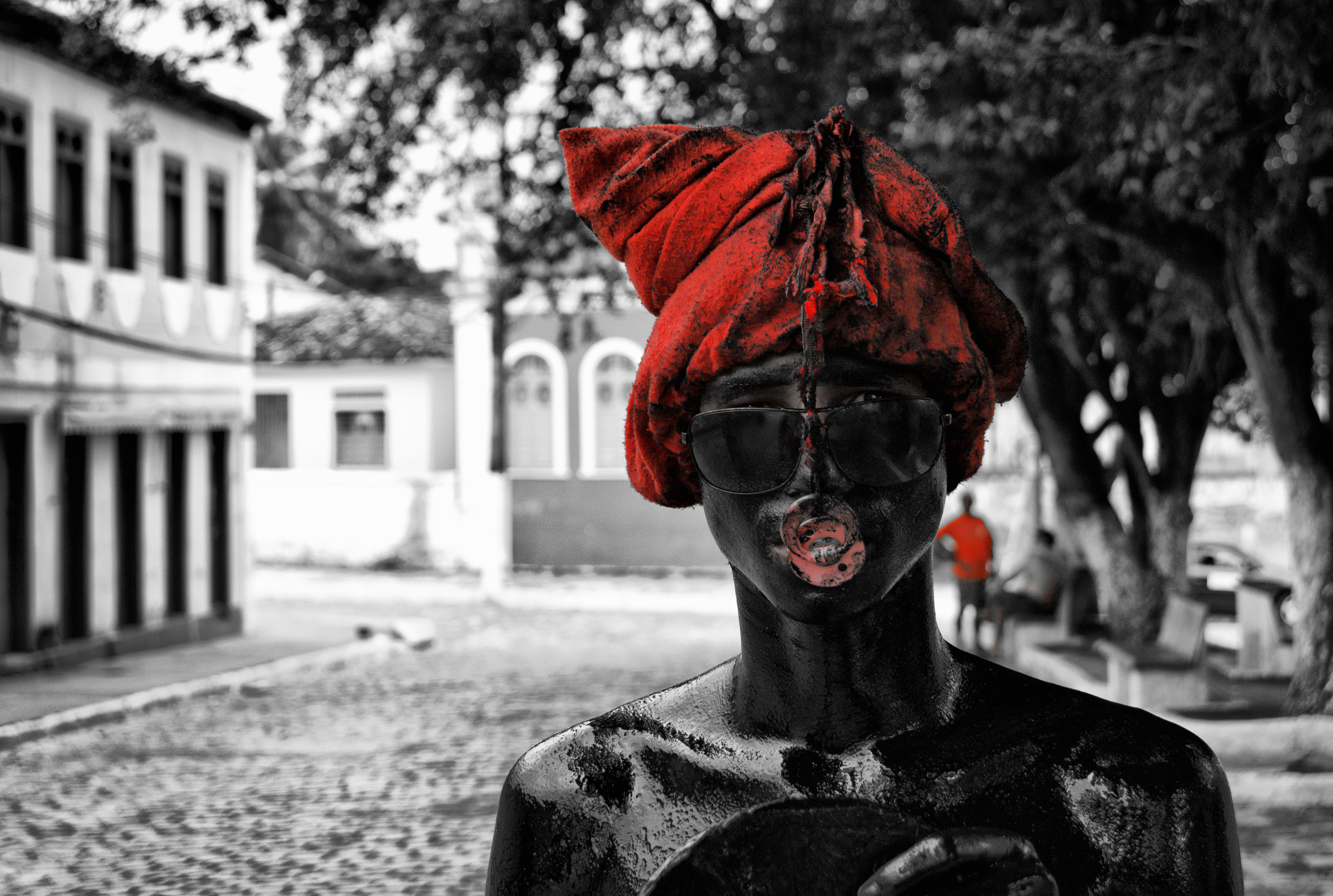 The "Lambe Sujo x Caboclinhos" festivity tells the story of the African slaves and how their scapes and schemes made the "Captães-demato-roughly translating=The Captain of the woods" confused. The term "Lambe Sujo" itself comes from the comouflage the slaves applied over their bodies to make the scape easier. The fugitive slaves stablished villages, which they called "Quilombos", on the land of the indians, thus iniciating a series of conflicts and battles over the land. These conflicts are acted out during the festivities. Such event takes place once every year always on the second Sunday of October.